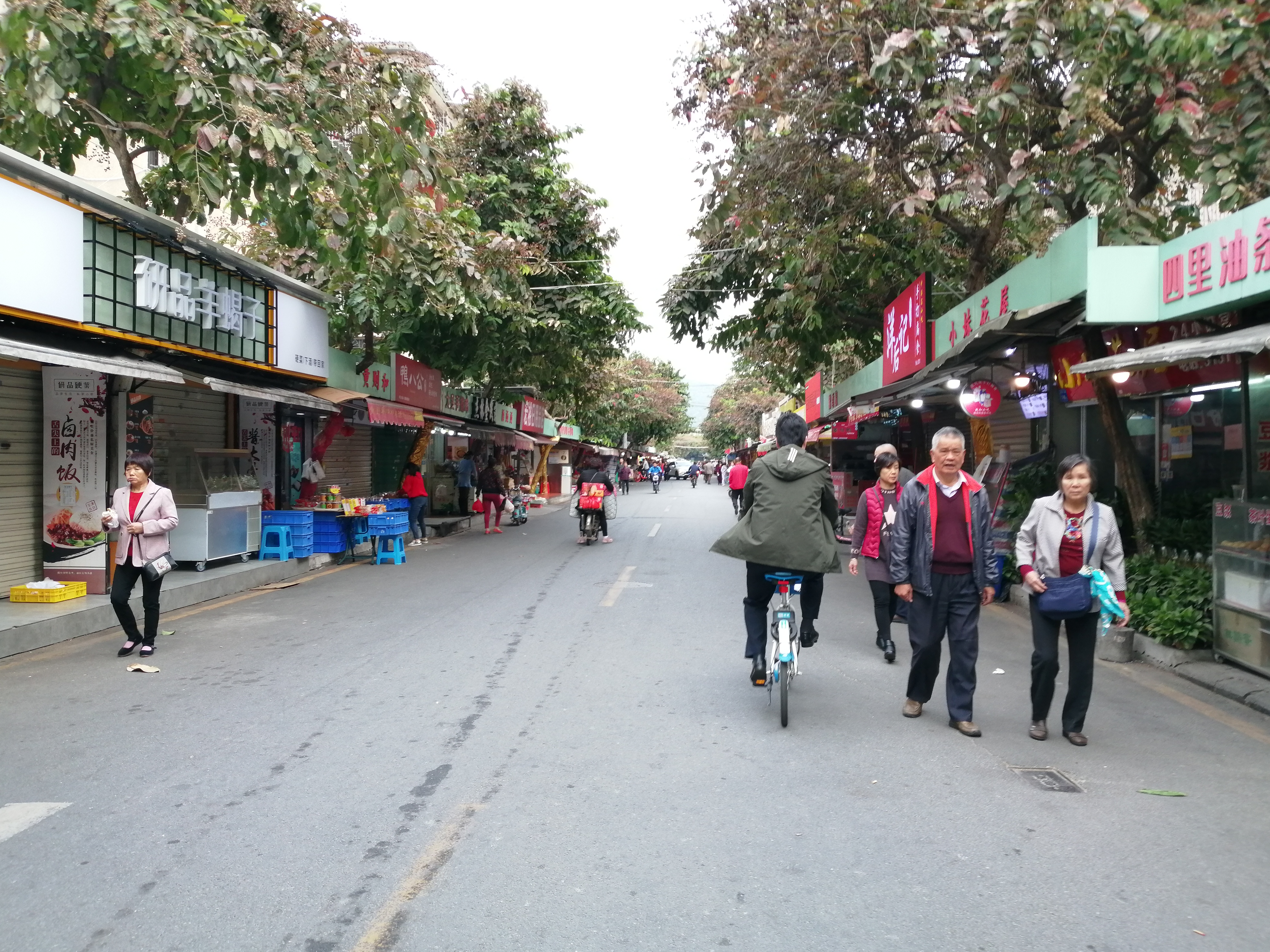 Jinbang Road Market, located in Siming District, Xiamen. There are many stores and restaurants on this street. 中文（中国大陆）: 厦门市思明区上的金榜路集市